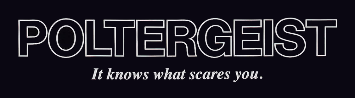 Official logo of the movie Poltergeist